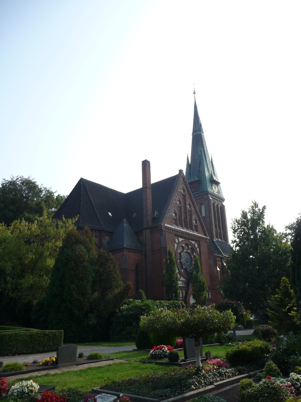 evang.-ref. church in Bremen-Blumenthal